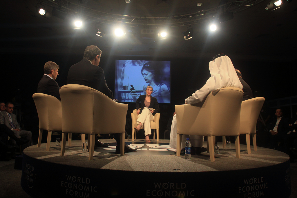 DEAD SEA/JORDAN,16MAY09 - Louisa K. Bojesen, Presenter, CNBC, United Kingdom during the "Case for Capitalism" session at the World Economic Forum on the Middle East at the Dead Sea, Jordan, Friday, May, 16, 2009. Copyright World Economic Forum ( by Nader Daoud